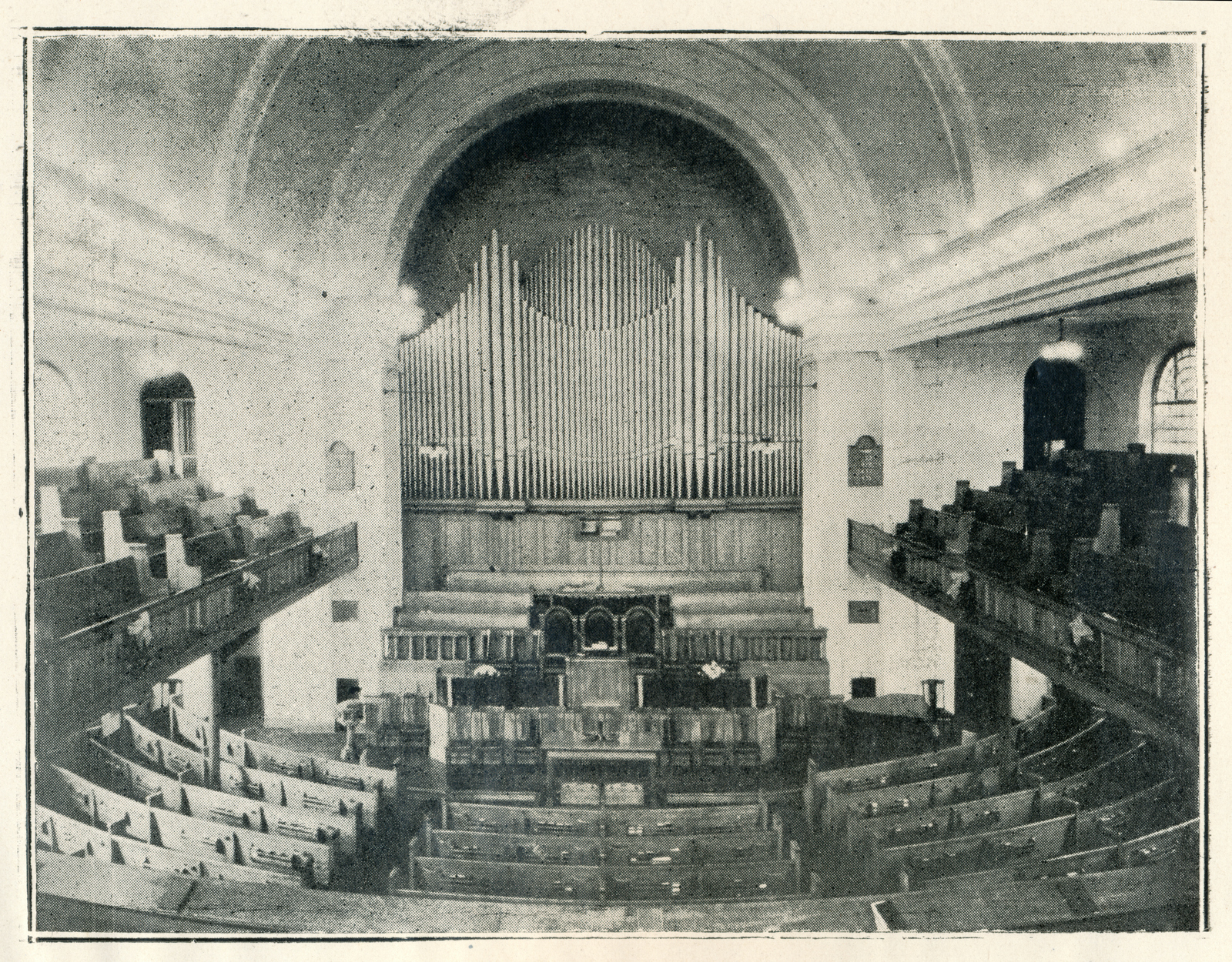 The Highland Arts Theatre is a historic building, first constructed as a Presbyterian Church, now operating an arts and culture centre in Sydney, Cape Breton Regional Municipality, Nova Scotia, Canada. It was initially constructed as St. Andrew's Presbyterian Church in 1910 - 1911. In 2014 St. Andrew's reopened as the Highland Arts Theatre, a live play and film theatre and concert venue located in Sydney's waterfront district.